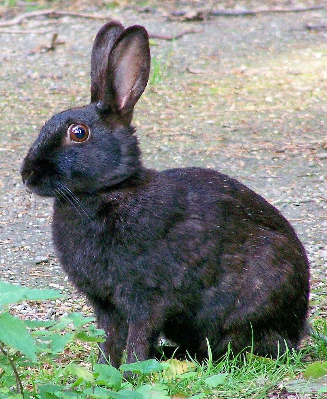 Seen here is a wild black rabbit belonging to the species of European rabbit. Species: Oryctolagus cuniculus (Linnaeus, 1758).